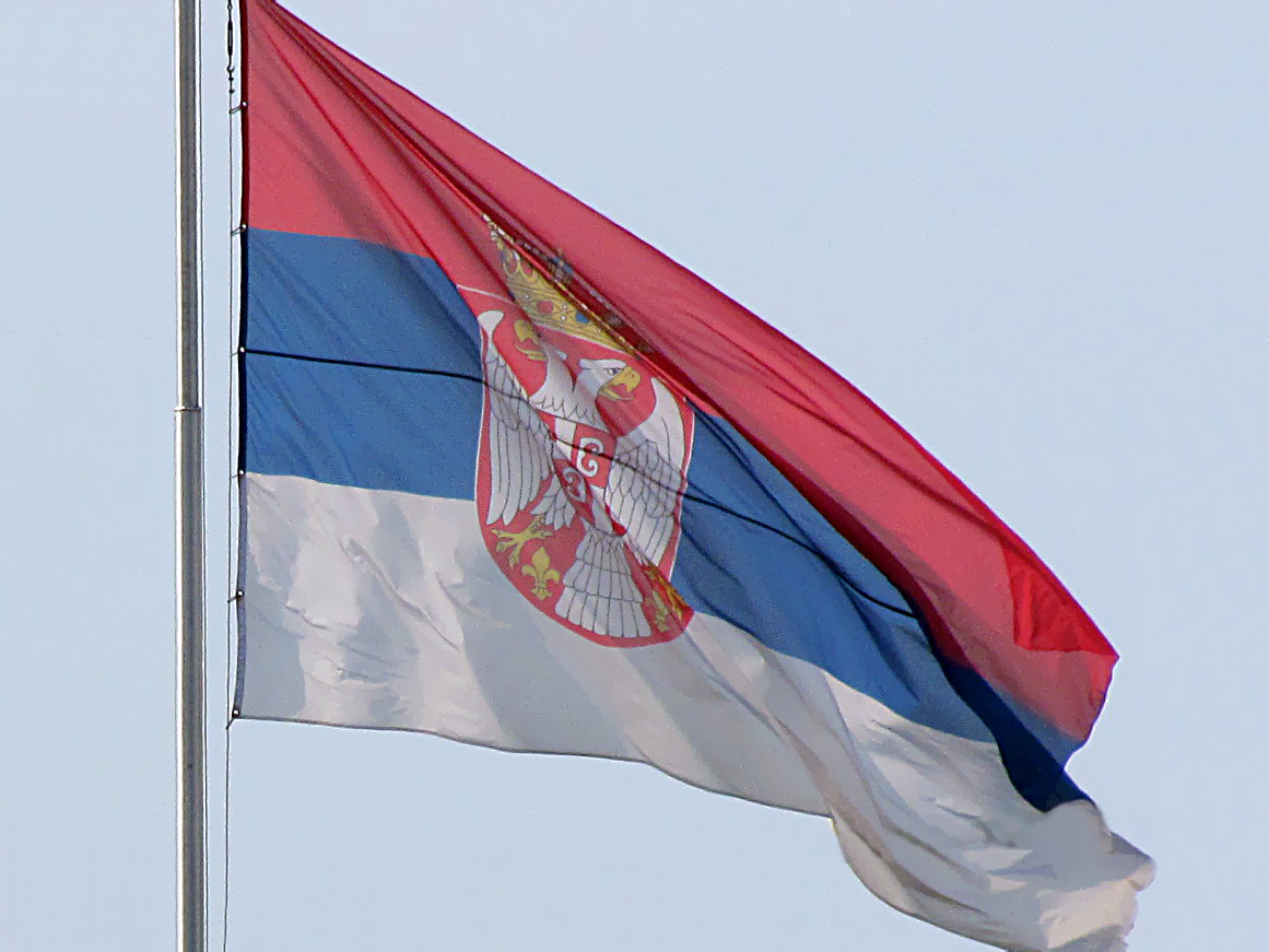 Flag of Serbia